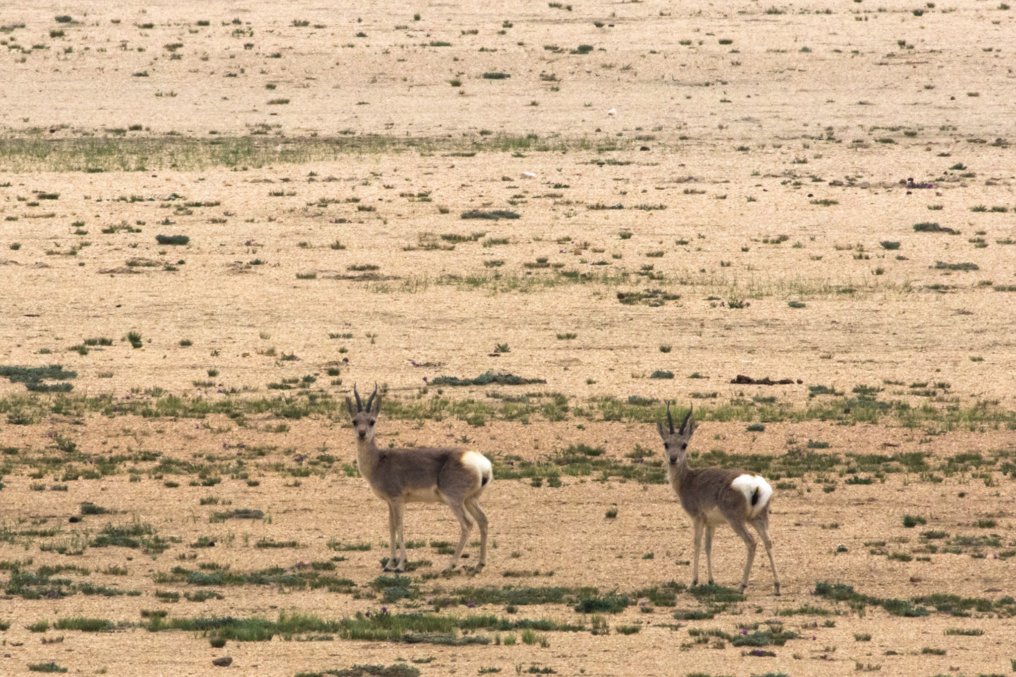 The goa (Procapra picticaudata), also known as the Tibetan gazelle